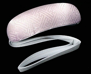 Obimakura is used to arrange various types of bow of obi such as otaiko(square bow), niju-daiko(two layered square bow), fukurasuzume bow for Furisode and so on.